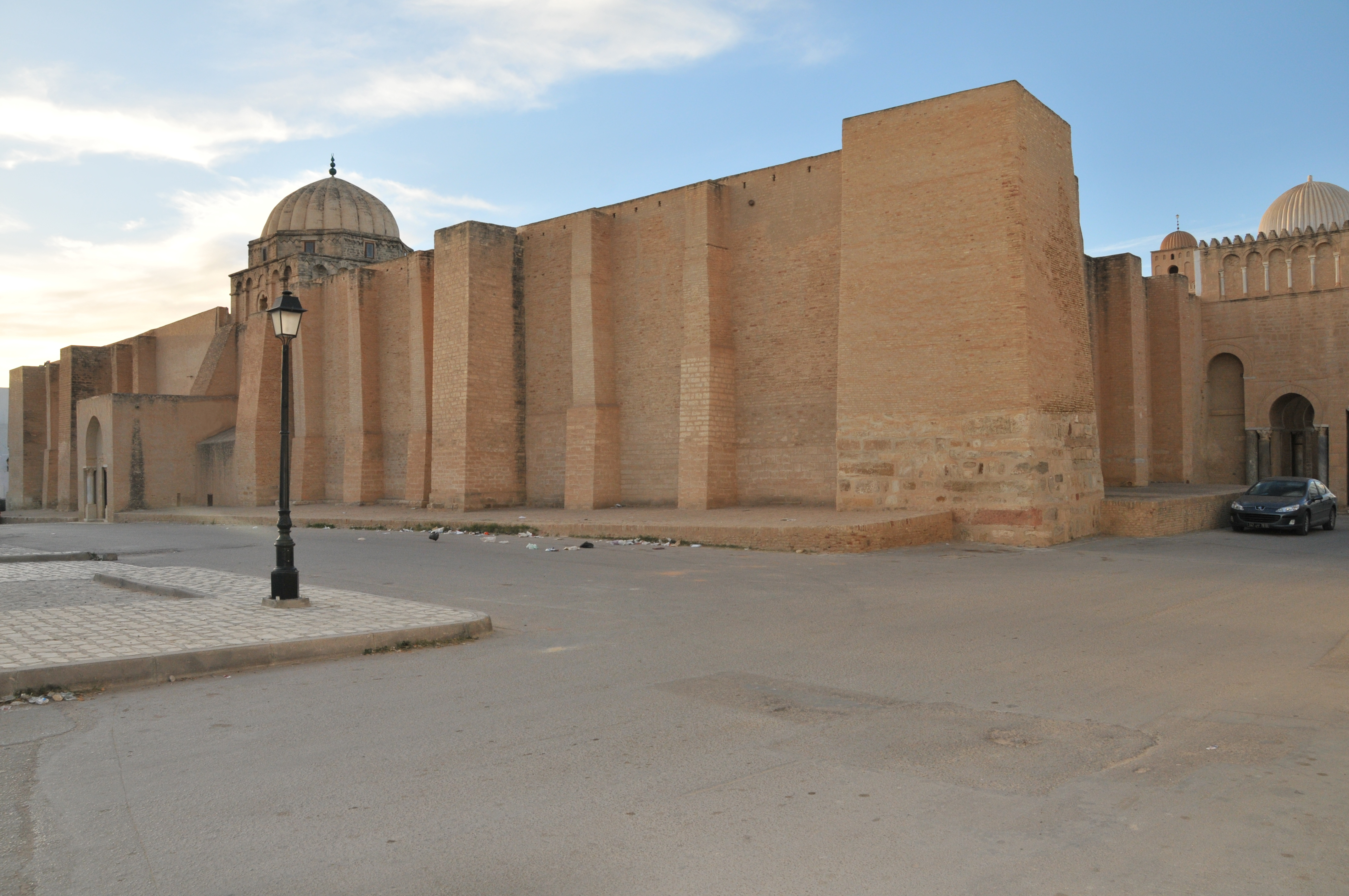 View of the south wall of the Great Mosque of Kairouan, in Tunisia.